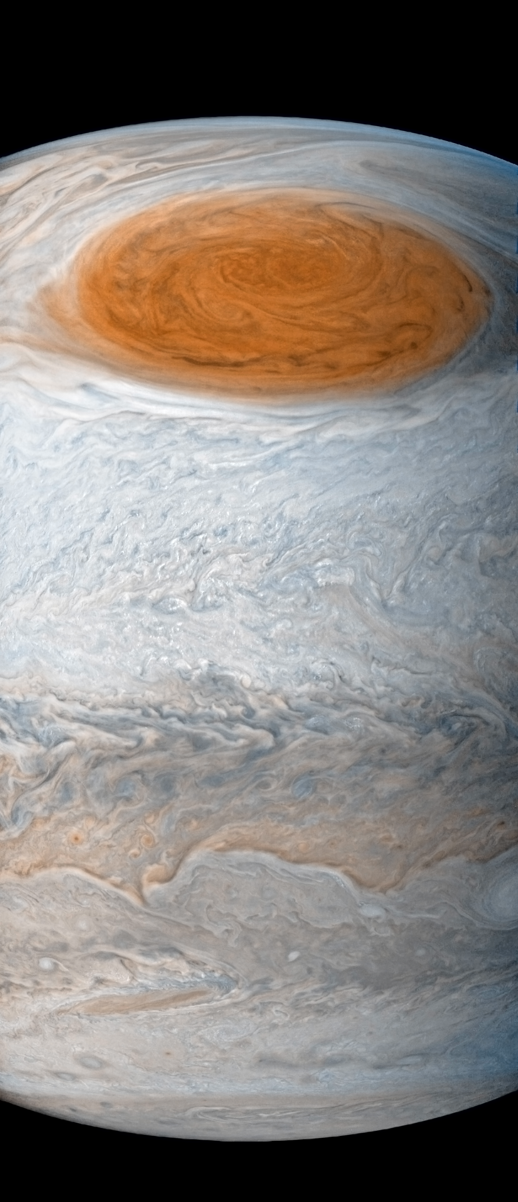 JunoCam Perijove 7 image of the Great Red Spot as Juno departed the vicinity of Jupiter. This image was taken from an altitude of 16500 km above Jupiter's South Temperate Belt. Image Credit: NASA / SwRI / MSSS / Gerald Eichstädt / Justin Cowart